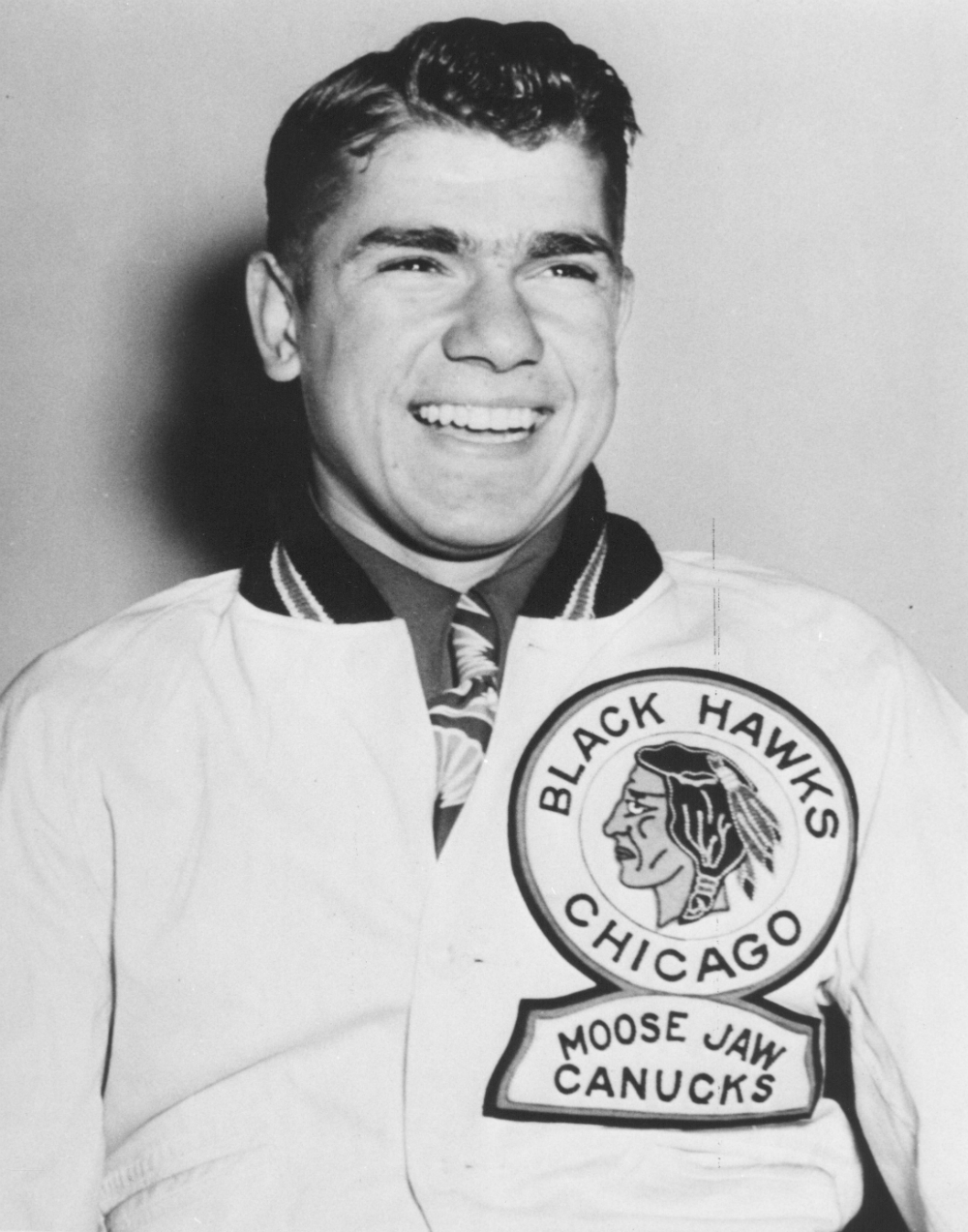 Metro Prystai photographed circa 1947 during his time with the Moose Jaw Canucks